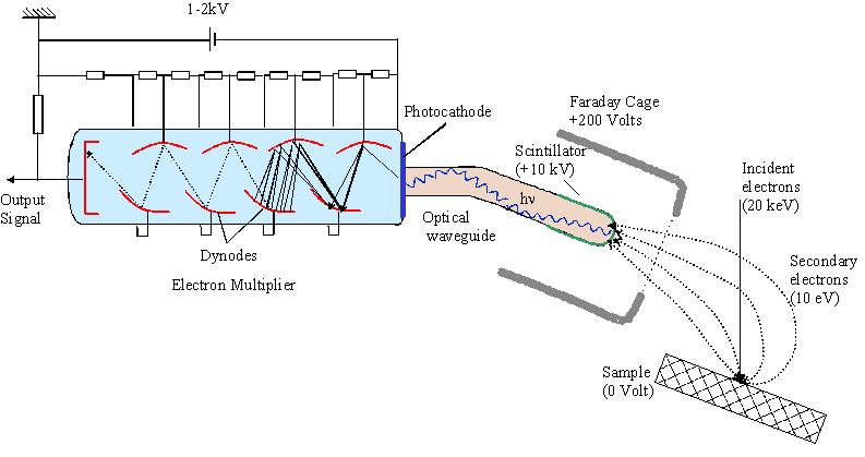 Everhart-Thornley detector